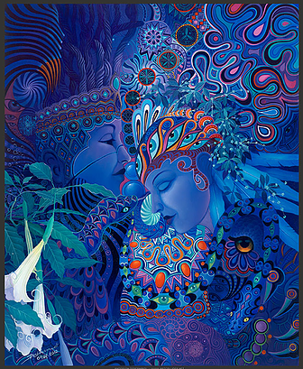 Art at Psyfi